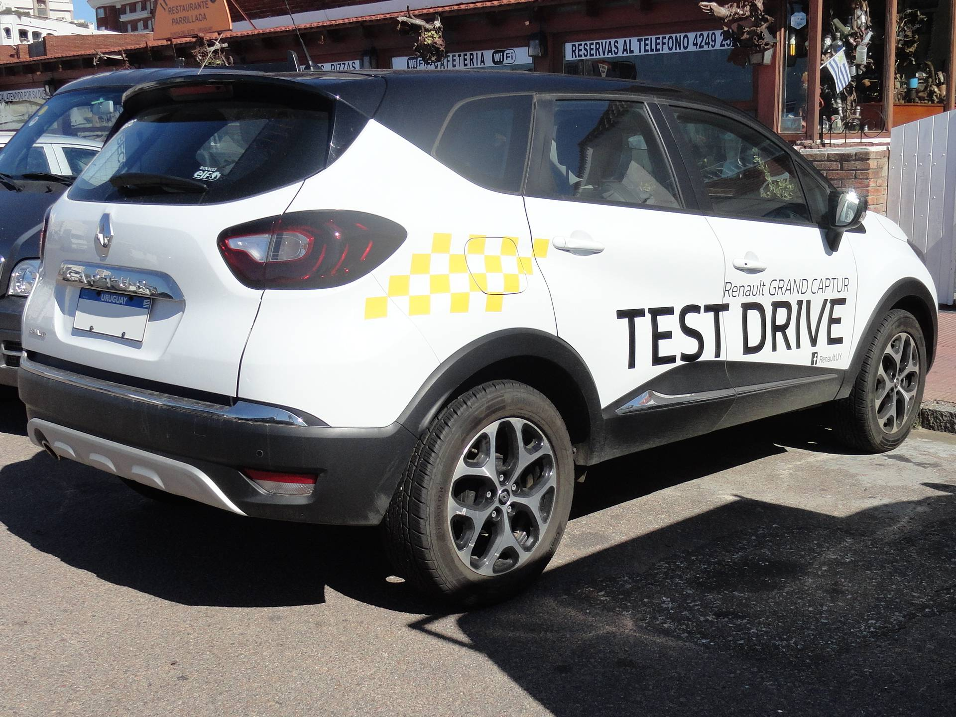 Renault Grand Captur 2017 test drive car in Punta del Este.